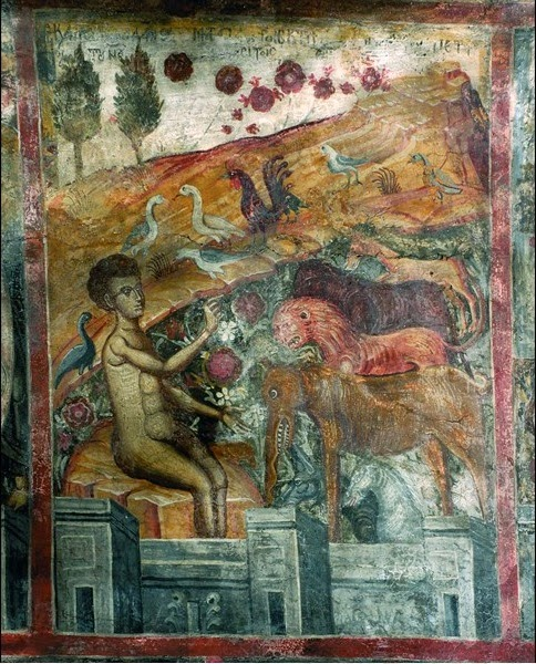 THE CHURCH OF THE DORMITION OF THE THEOTOKOS IN ASKLIPIO, RHODES